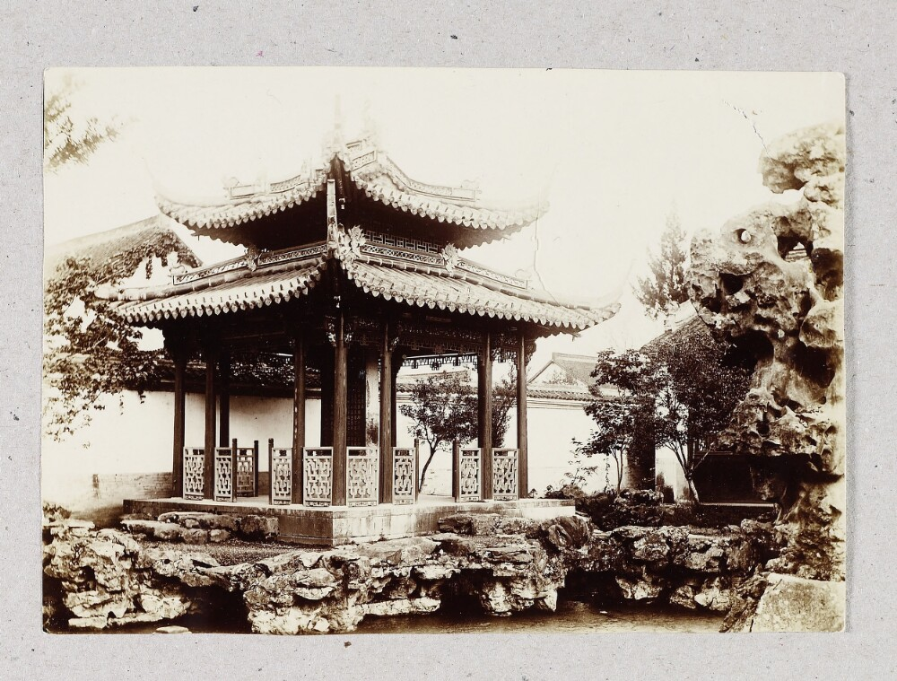 A picture taken by Isabella Lucy Bird while exploring China